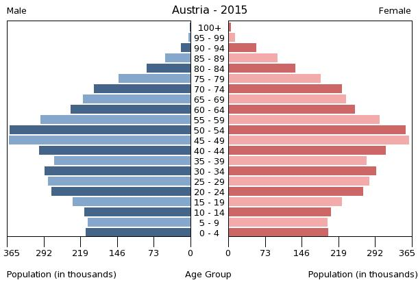 A population pyramid illustrates the age and sex structure of population and may provide insights about political and social stability, as well as economic development. The population is distributed along the horizontal axis, with males shown on the left and females on the right. The male and female populations are broken down into 5-year age groups represented as horizontal bars along the vertical axis, with the youngest age groups at the bottom and the oldest at the top. The shape of the population pyramid gradually evolves over time based on fertility, mortality, and international migration trends.